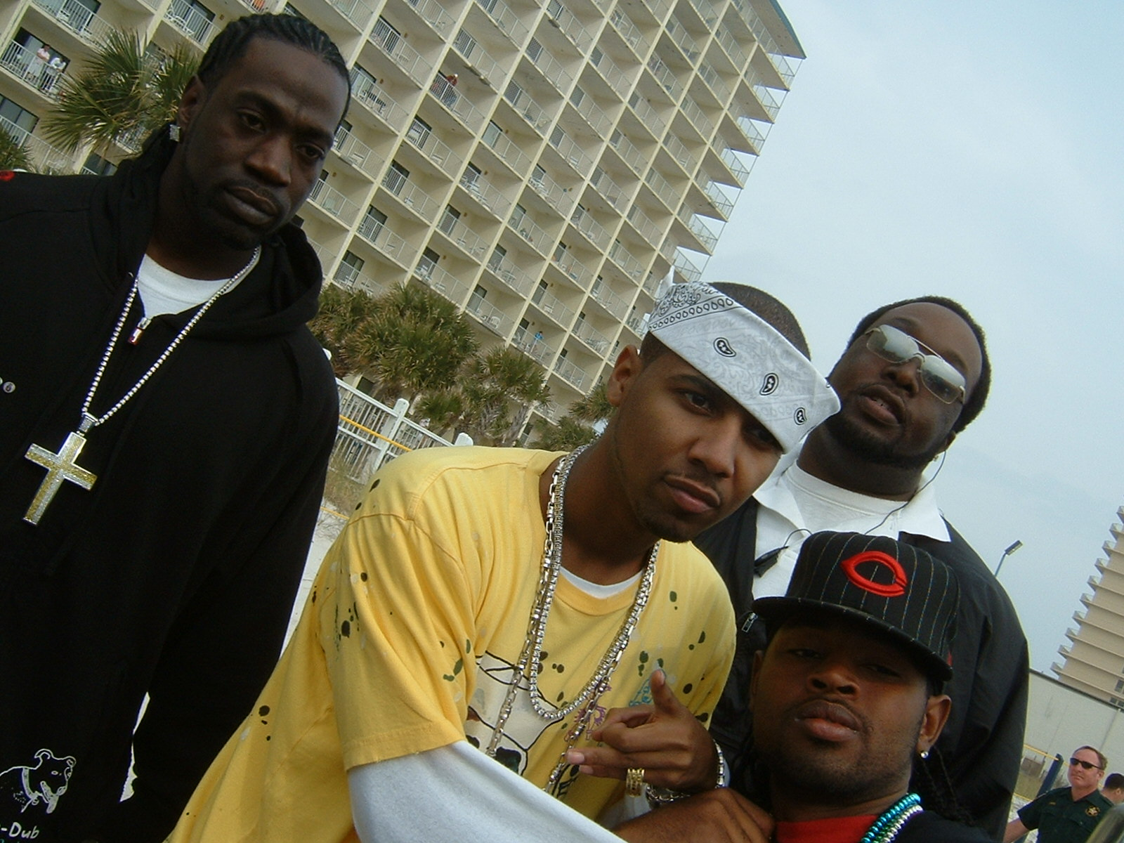 I took this picture of Juelz Santanat at the end of his show in Panama City for Spring Break 09